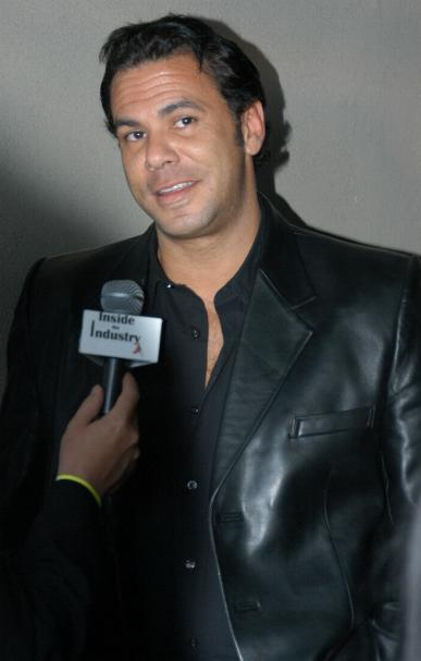 Steven St. Croix at Bryn Pryor's Corruption Party, November 11 2006